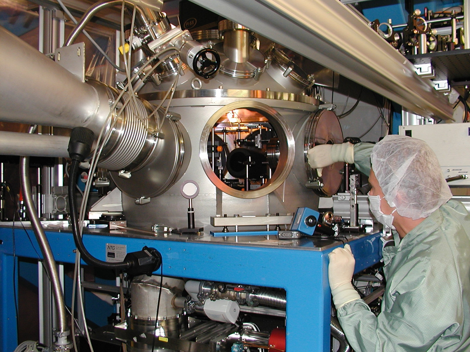 Target Chamber of the Z6 Experimental Area at the GSI Helmholtz Centre for Heavy Ion Research